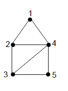 Picture of a graph